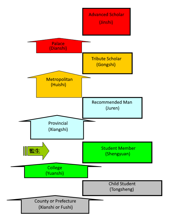 Kejue (en)